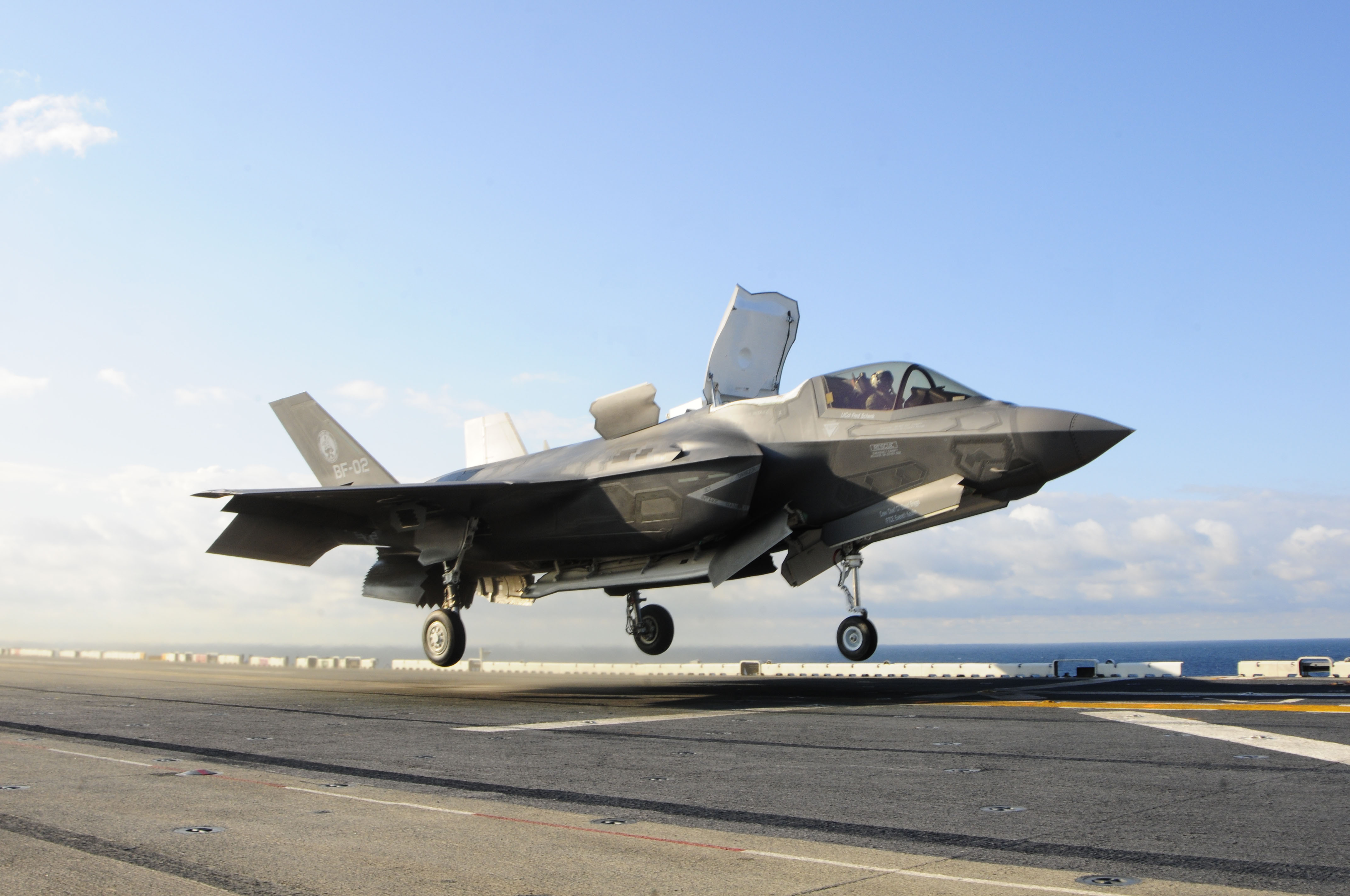 ATLANTIC OCEAN (Oct. 4, 2011) Lt. Col. Fred Schenk lifts an F-35B Lightning II off the flight deck of the amphibious assault ship USS Wasp (LHD 1). The F-35B is the Marine Corps Joint Strike Force variant of the Joint Strike Fighter. The aircraft is undergoing testing aboard Wasp. (U.S. Navy photo By Mass Communication Specialist Seaman Andrew Rivard/Released)